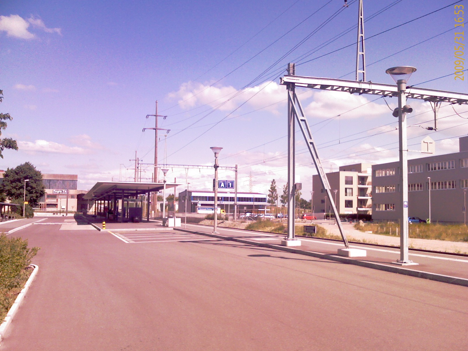 Trainstation Dällikon-Buchs, canton of Zürich, SwitzerlandEsperanto: Stacidomo Dällikon-Buchs, Kantono Zuriko, Svislando